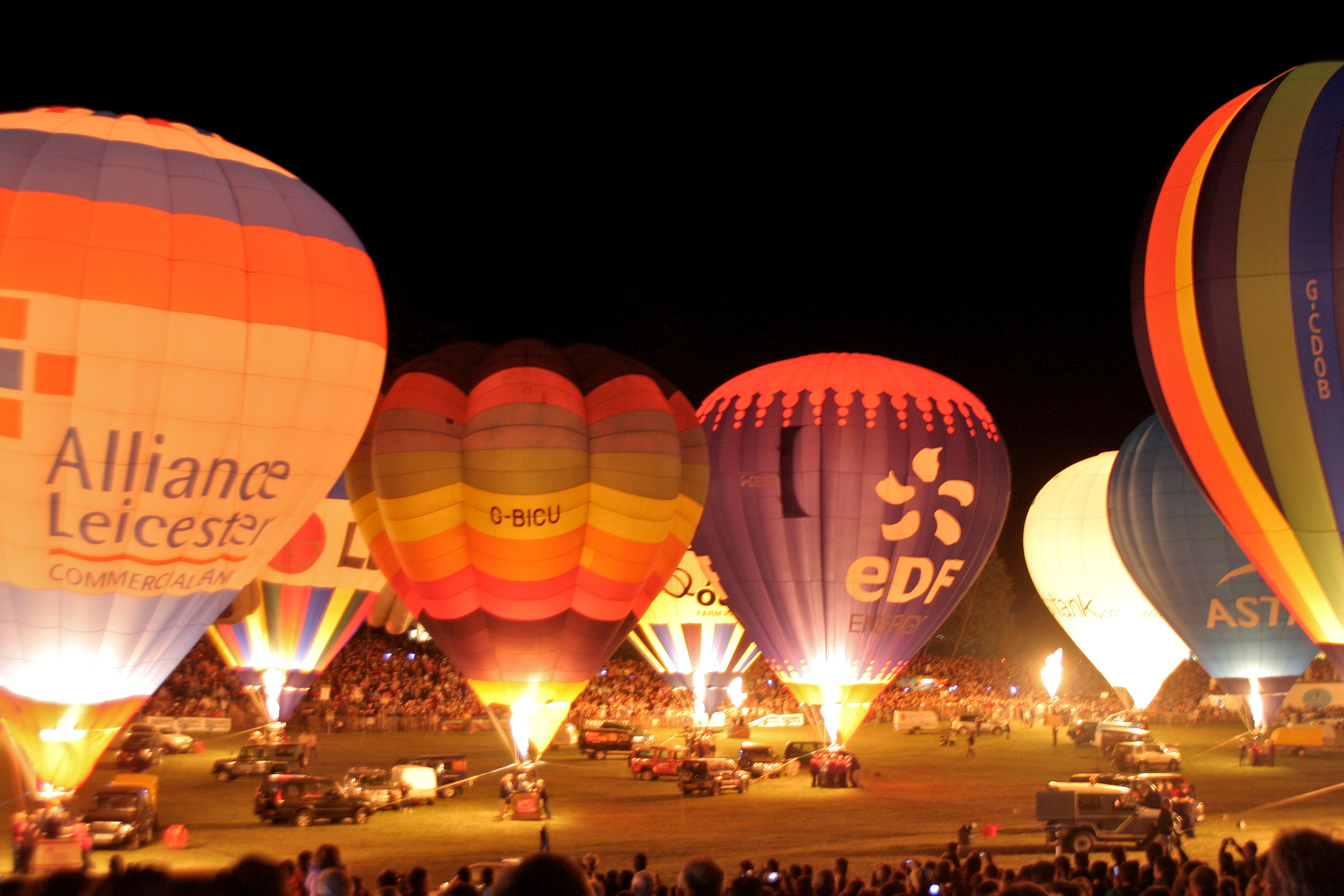 Balloons at the Bristol International Balloon Fiesta 2006